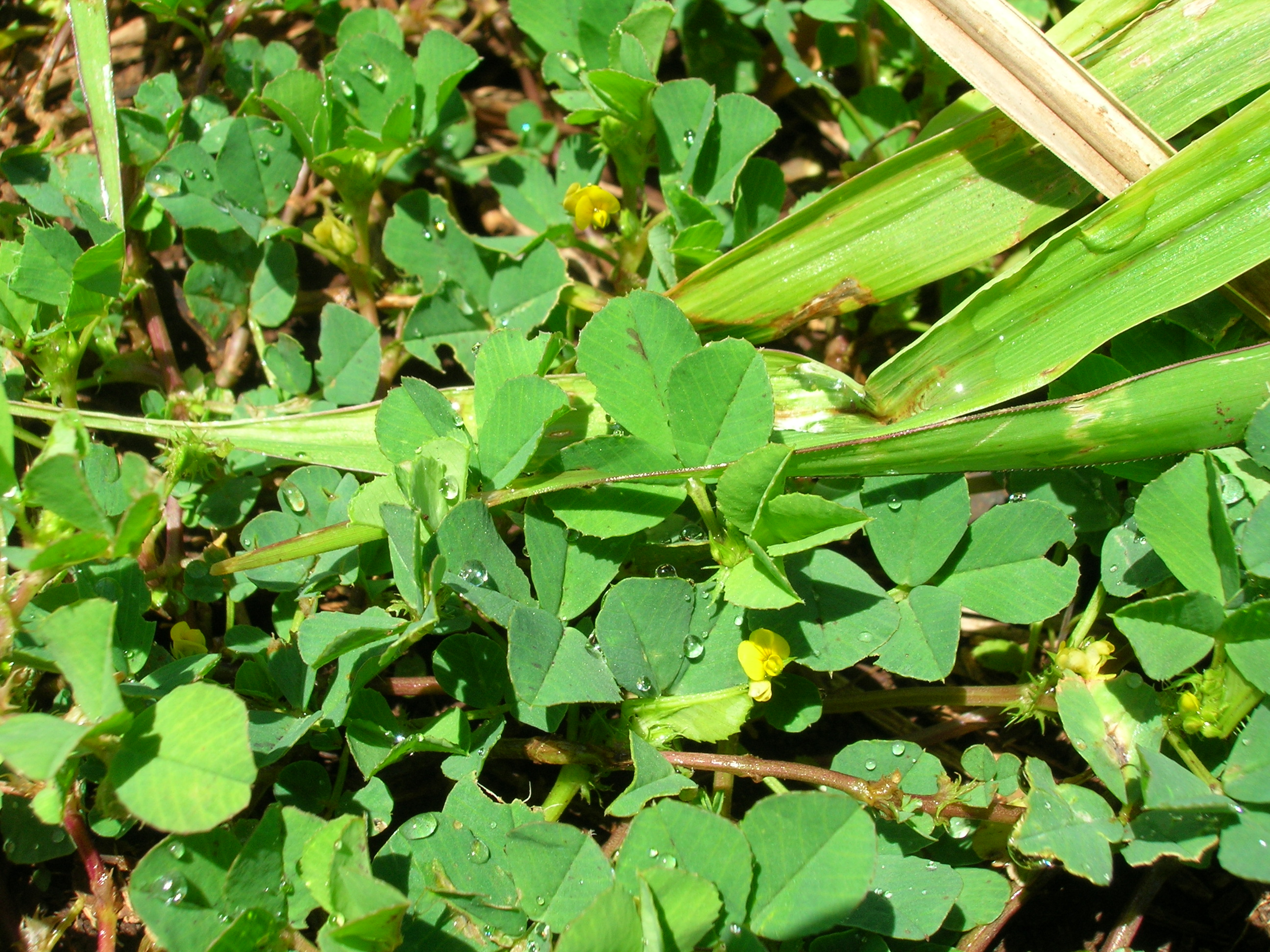 Medicago polymorpha (habit and flowers). Location: Maui, Paia